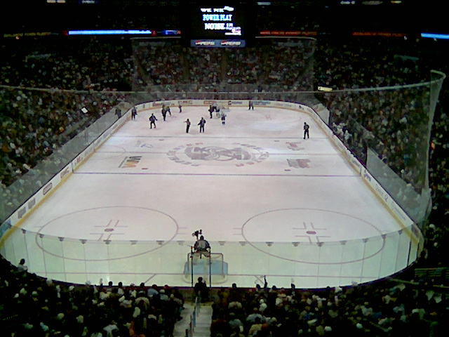 Pepsi Center's interior during Game 4 of the 2006 NHL Western Conference semi-finals against the Mighty Ducks of Anaheim. Denver, CO, USA.